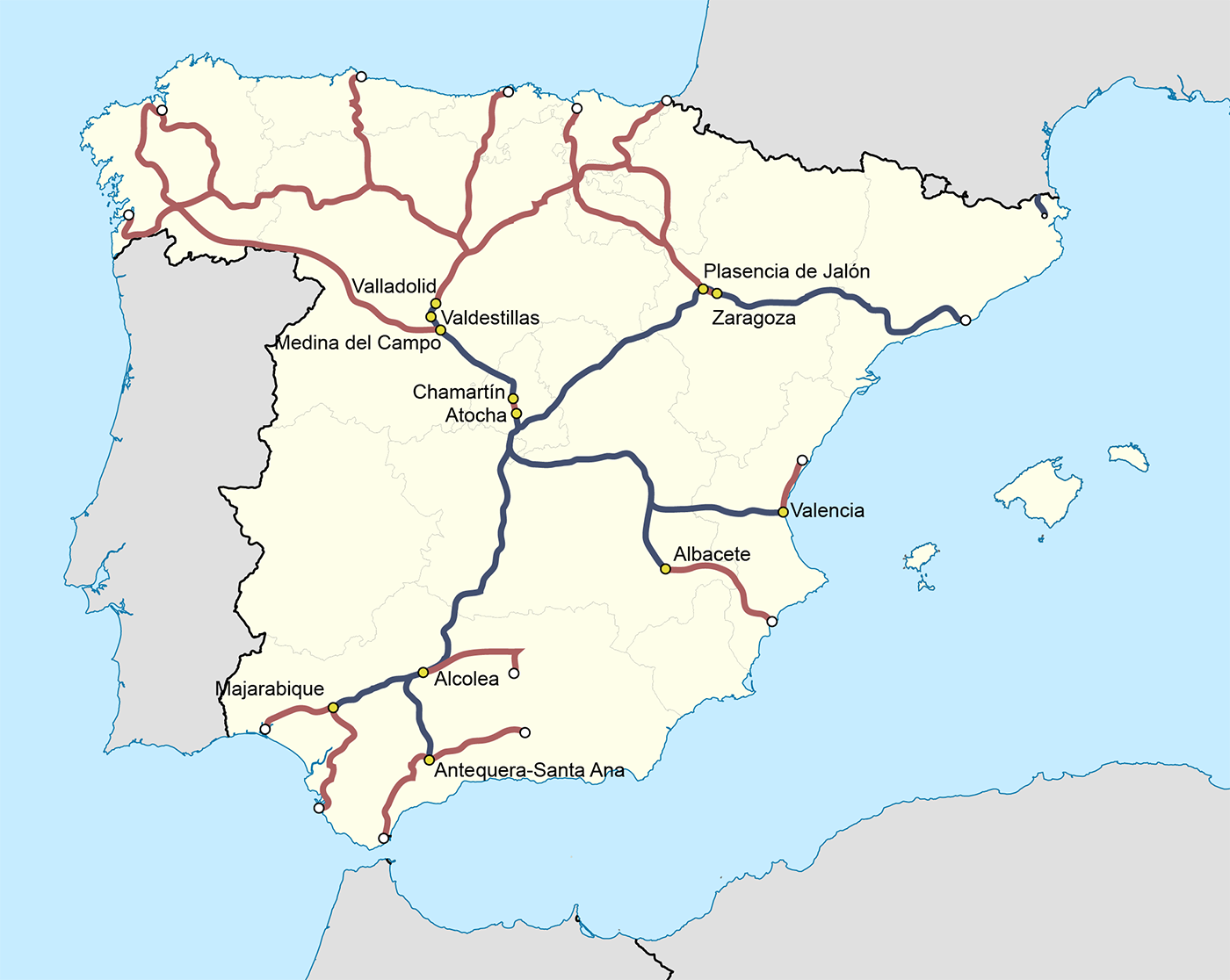 Map of high speed services in Spain with variable gague Blue: high speed lines (1.435 mm) Red: traditional lines (1.668 mm) Yellow: changing facilities High speed lines without variable gauge services are not displayed.